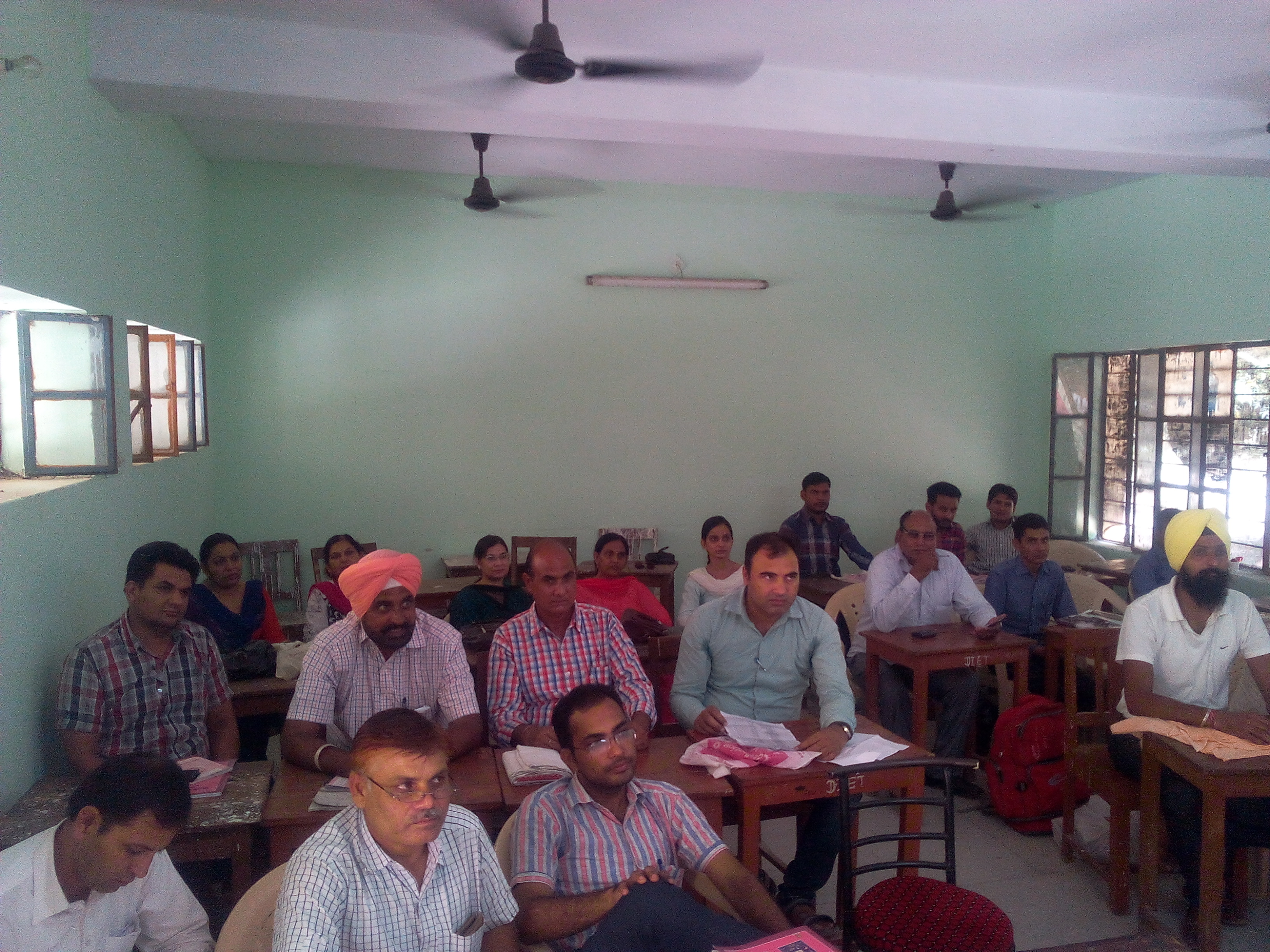 This image is about a teacher training at Diet,ChunawadhIndia.